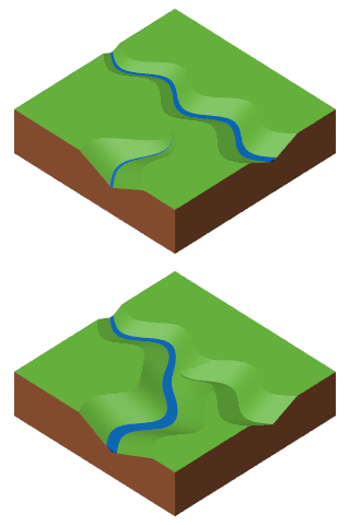 Two panes showing stream capture.